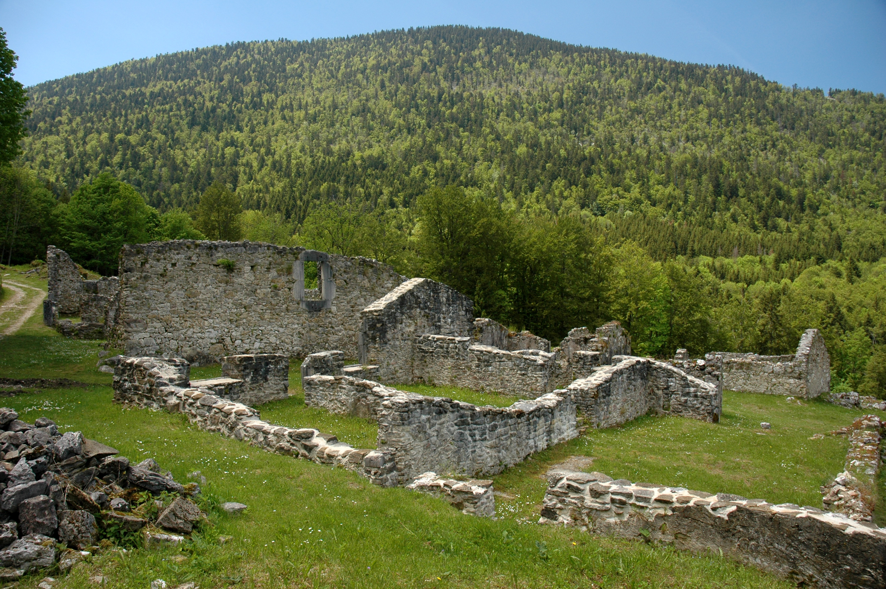 Valchevrière, hamlet razed by the nazis